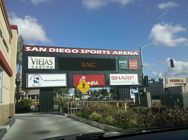 Sign as seen from the drive-thru of the Chick-fil-A in the parking lot